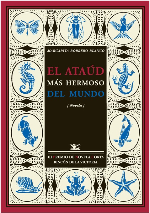 el ataud mas hermoso del mundo